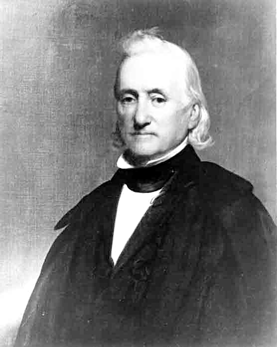 Thomas M. Nelson, US Representative from Virginia